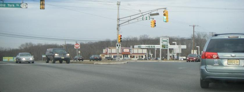 Intersection between U.S. Route 202/New Jersey Route 31 and New Jersey Route 179/County Route 514 in Ringoes, Hunterdon County, New Jersey